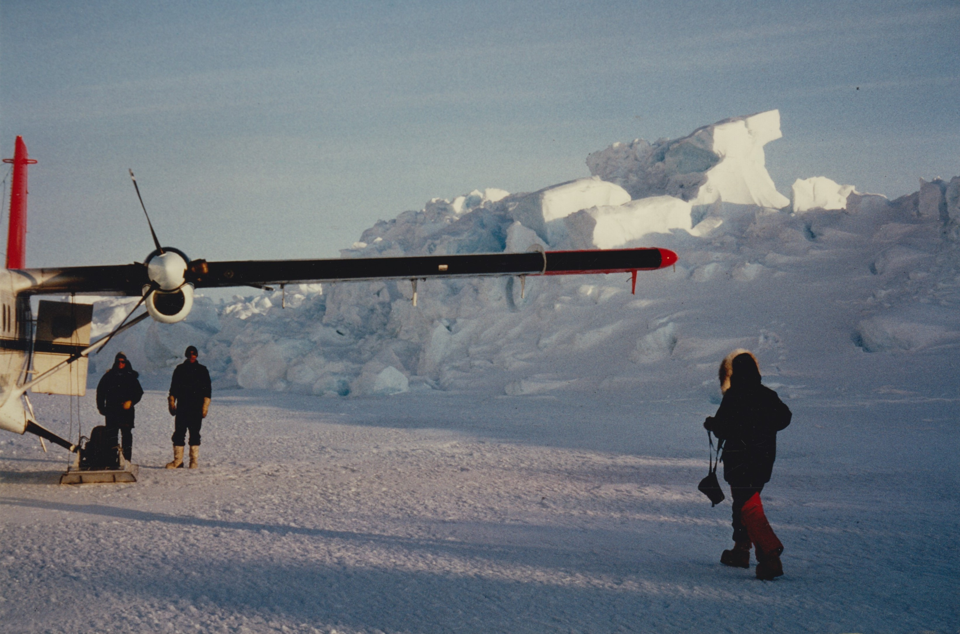 Foto taken April 18, 1990 during expedition to North Pole of JLU University Giessen organized by L.King @JLU.de